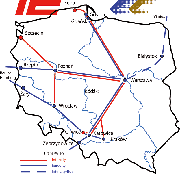 Intercity-, Eurocity- connections in Poland